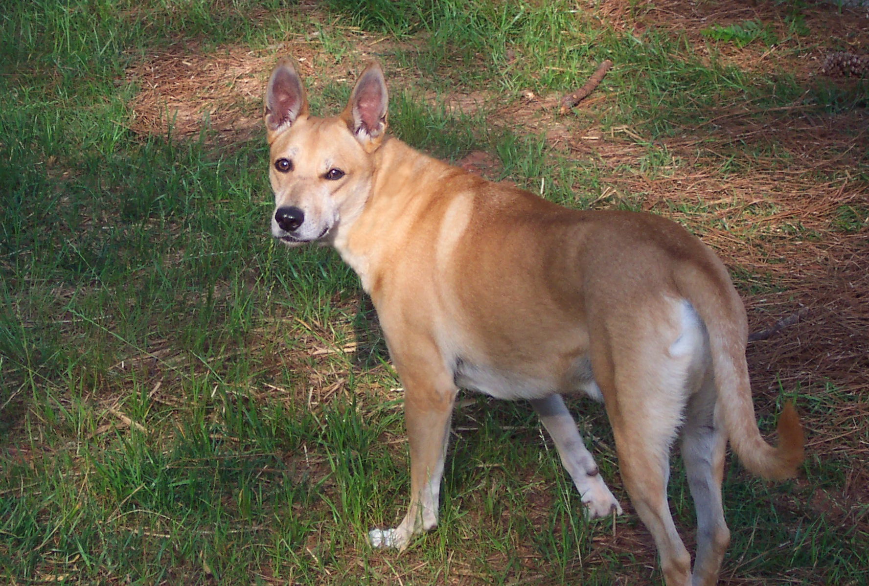 Carolina dog "Hunter" in Calabash, North Carolina that participated in DNA testing to establish ancient origin of the species (